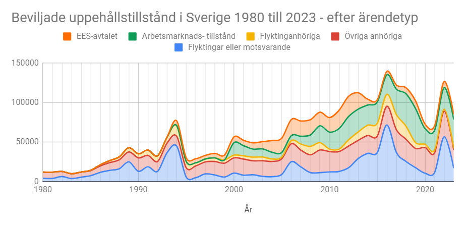 Number of granted residence permits in Sweden 1980-2019. 6 categories. Stacked area diagram. Data source